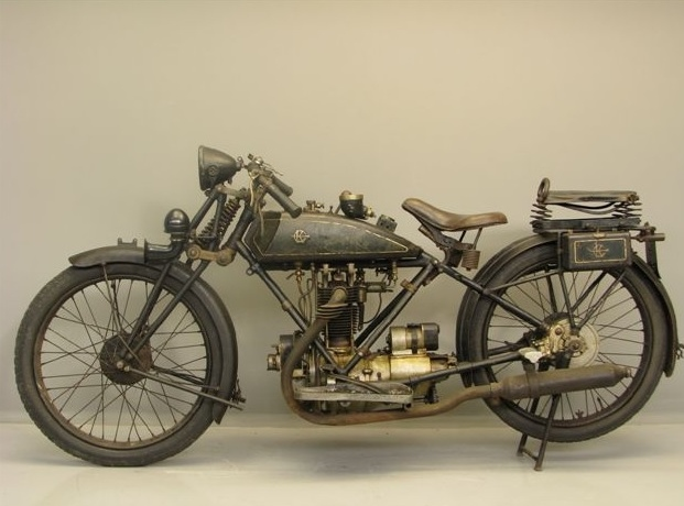 Krieger-Gnädig 500 cc OHV motorcycle 1925